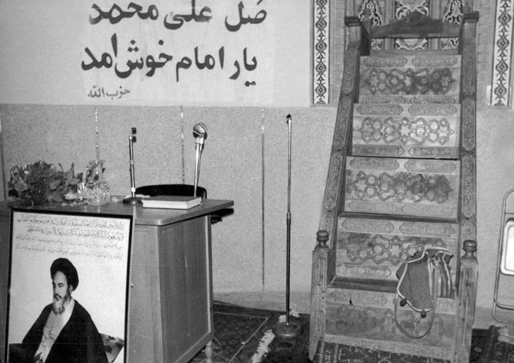 Tribune of Aboozar Mosque in Tehran, Which Ayatollah Ali Khamenei was assassinated in 27 June 1981 while giving Speech behind it.